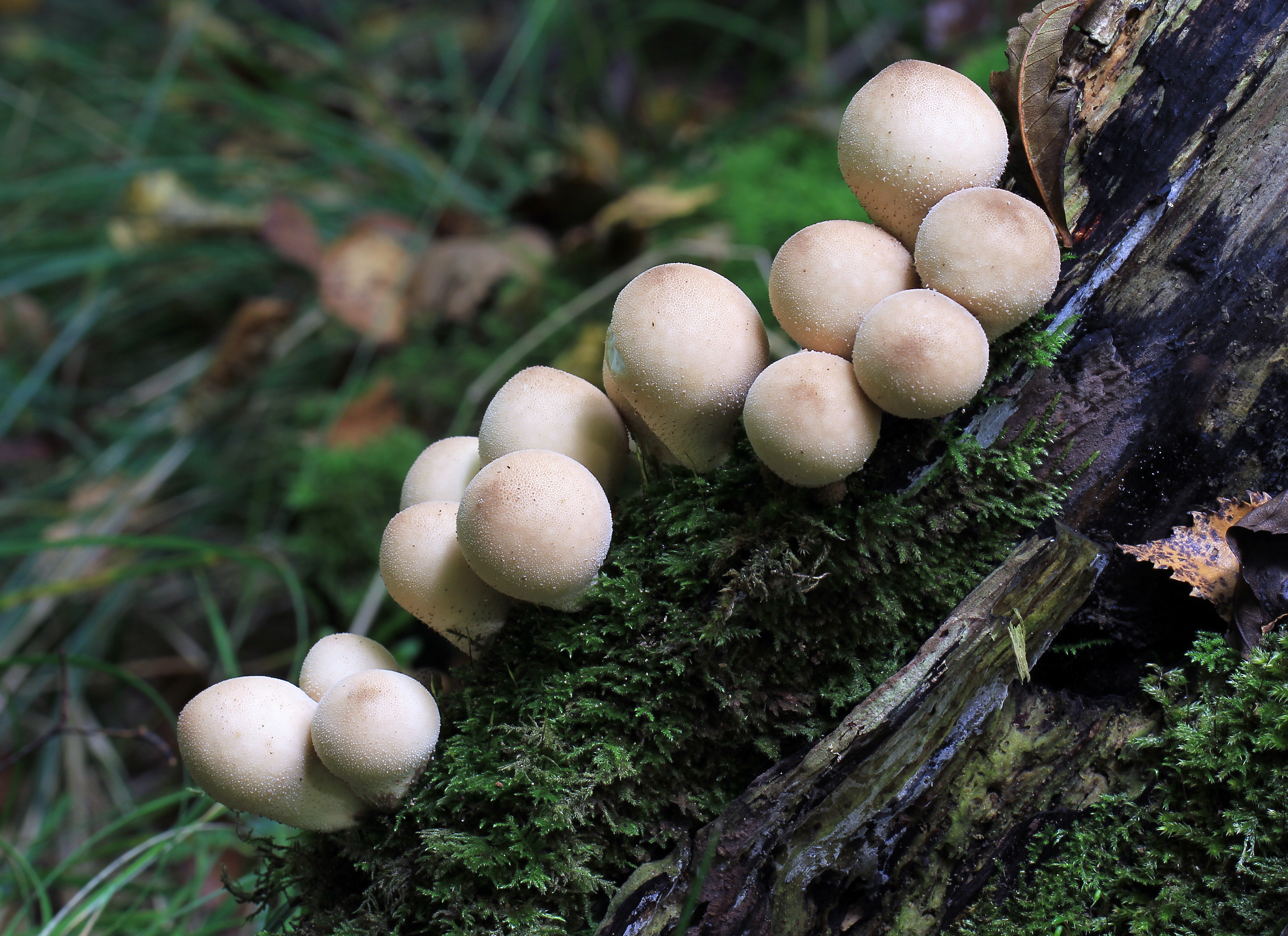 Lycoperdon pyriforme, Stump Puffball, in Wormley Wood, Hertfordshire, UK.